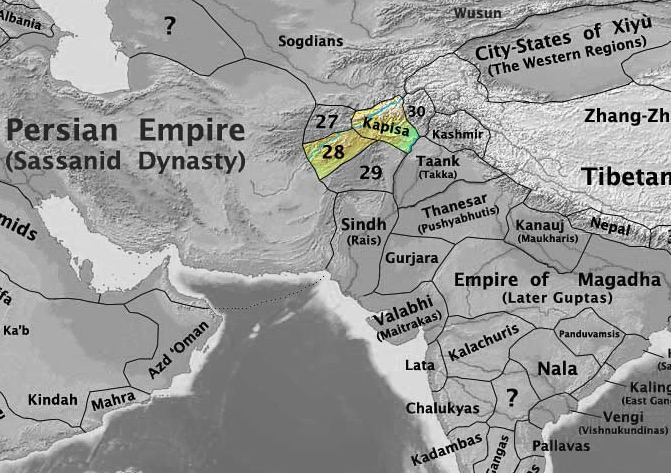 Map highlighting the territory of the Nezak Huns in 565 CE. Adapted from Thomas Lessman's Eastern Hemisphere map of 565 AD, which was obtained from and is licensed under the Creative Commons Attribution-Share Alike 3.0 Unported license.